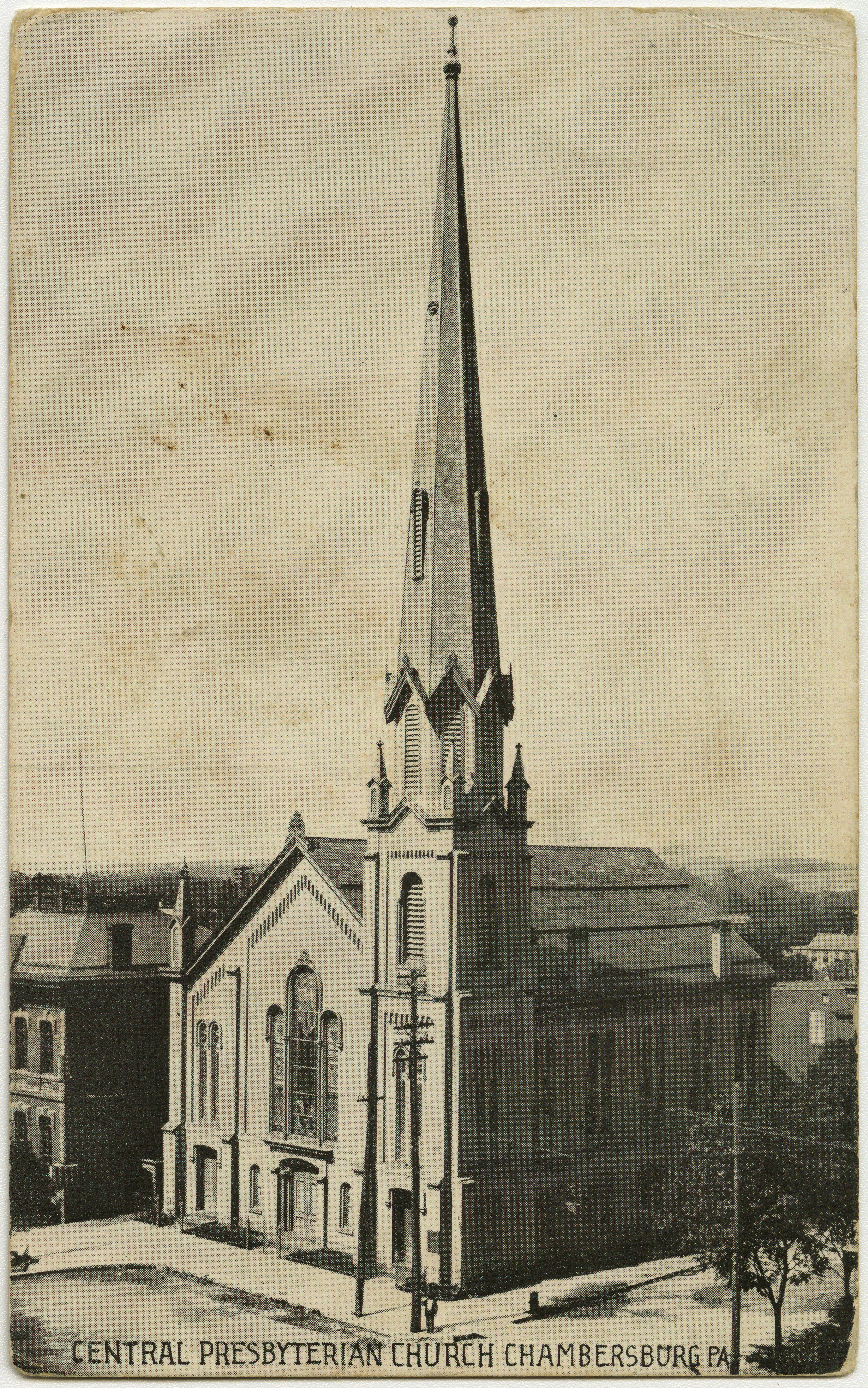 Central Presbyterian Church in Chambersburg, Pennsylvania on a pre-1923 postcard. From RG 428, Postcard Collection, Presbyterian Historical Society, Philadelphia, Pennsylvania.